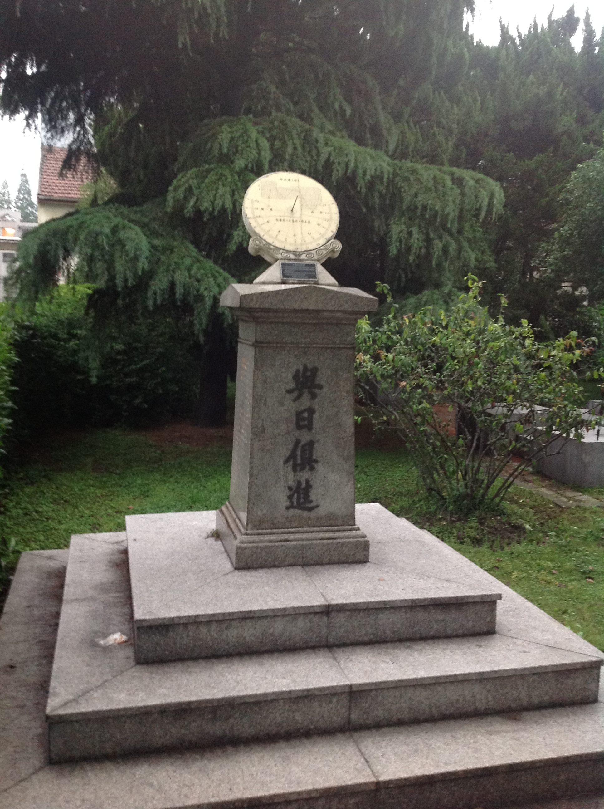 Sundial in SJTU.